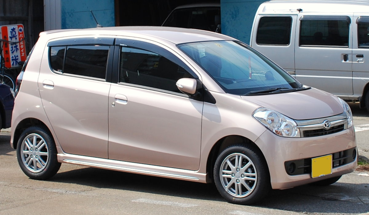 Daihatsu Mira Custom (2008/12 - )